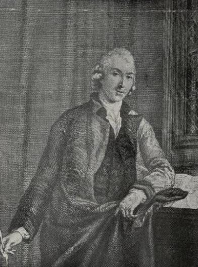 A portrait from the Welsh Portrait Collection at the National Library of Wales. Depicted person: David Williams – Welsh philosopher of the Enlightenment period